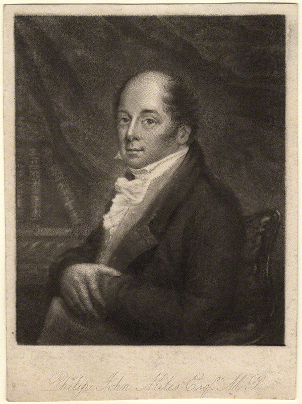 Portrait of Philip John Miles, English politician.